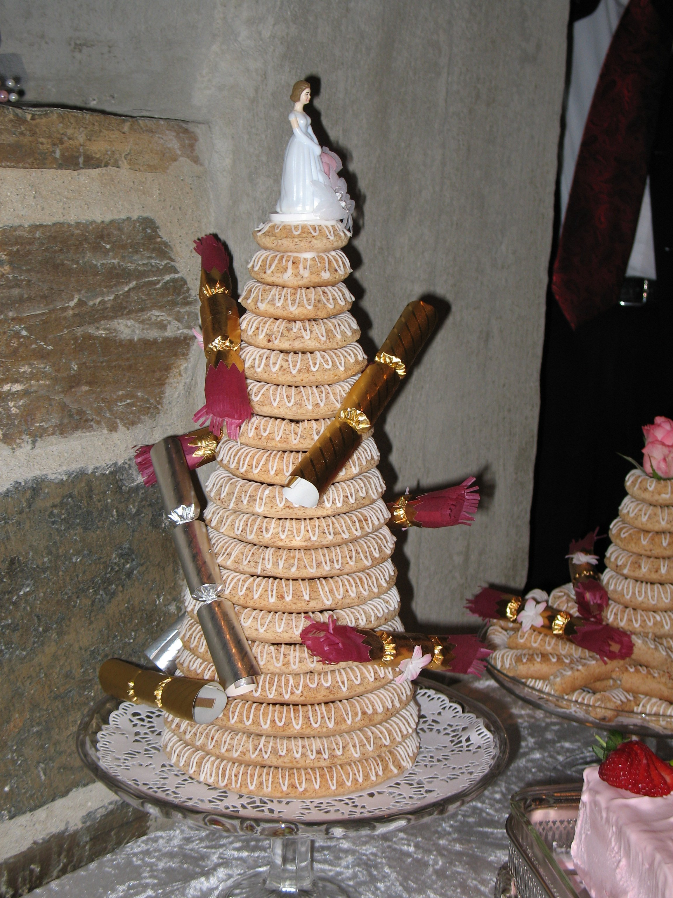 Kransekake, a Danish / Norwegian cake.